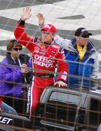 Carl Edwards (red suit) waves to NASCAR fans at the 2006 Spring race at Bristol